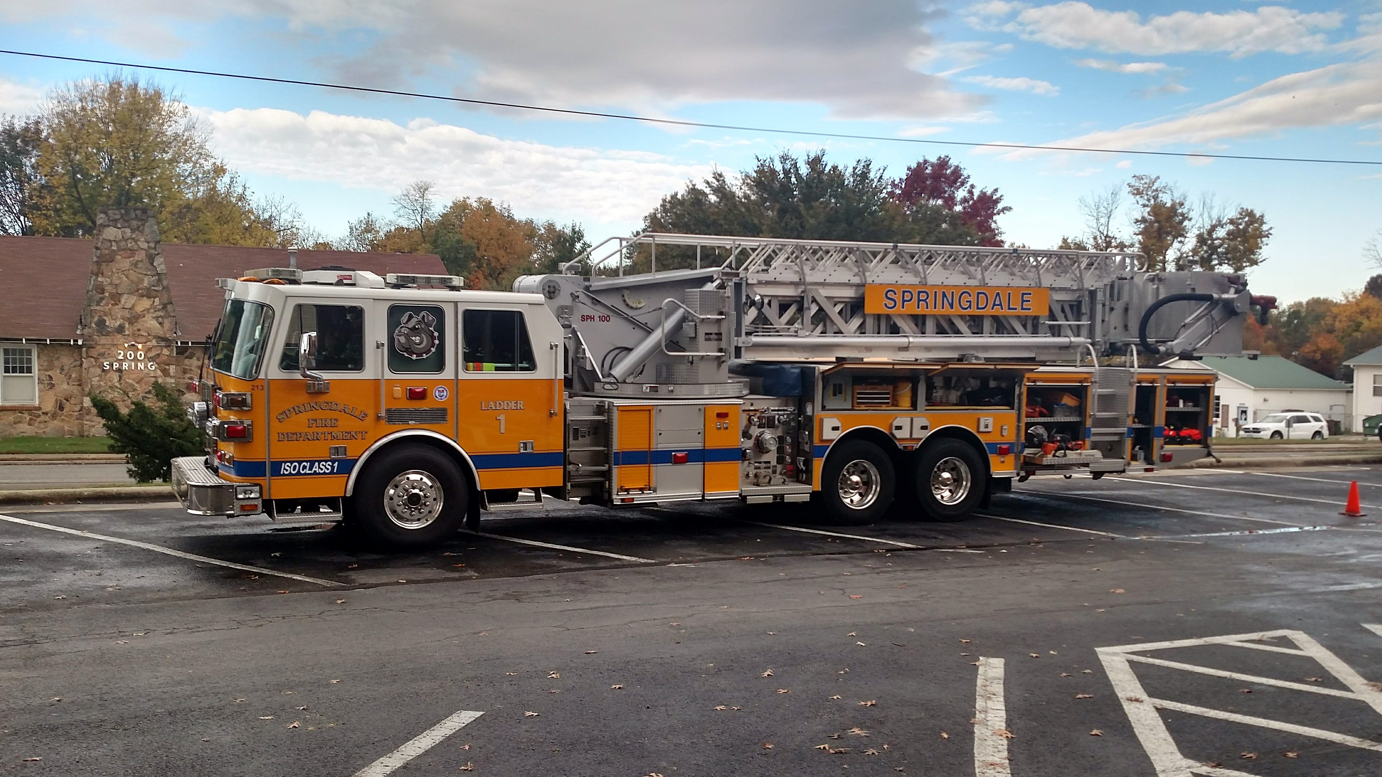 The yellow Ladder 1 parked in the parking lot of the City Administration Building in Springdale, Arkansas for a student group